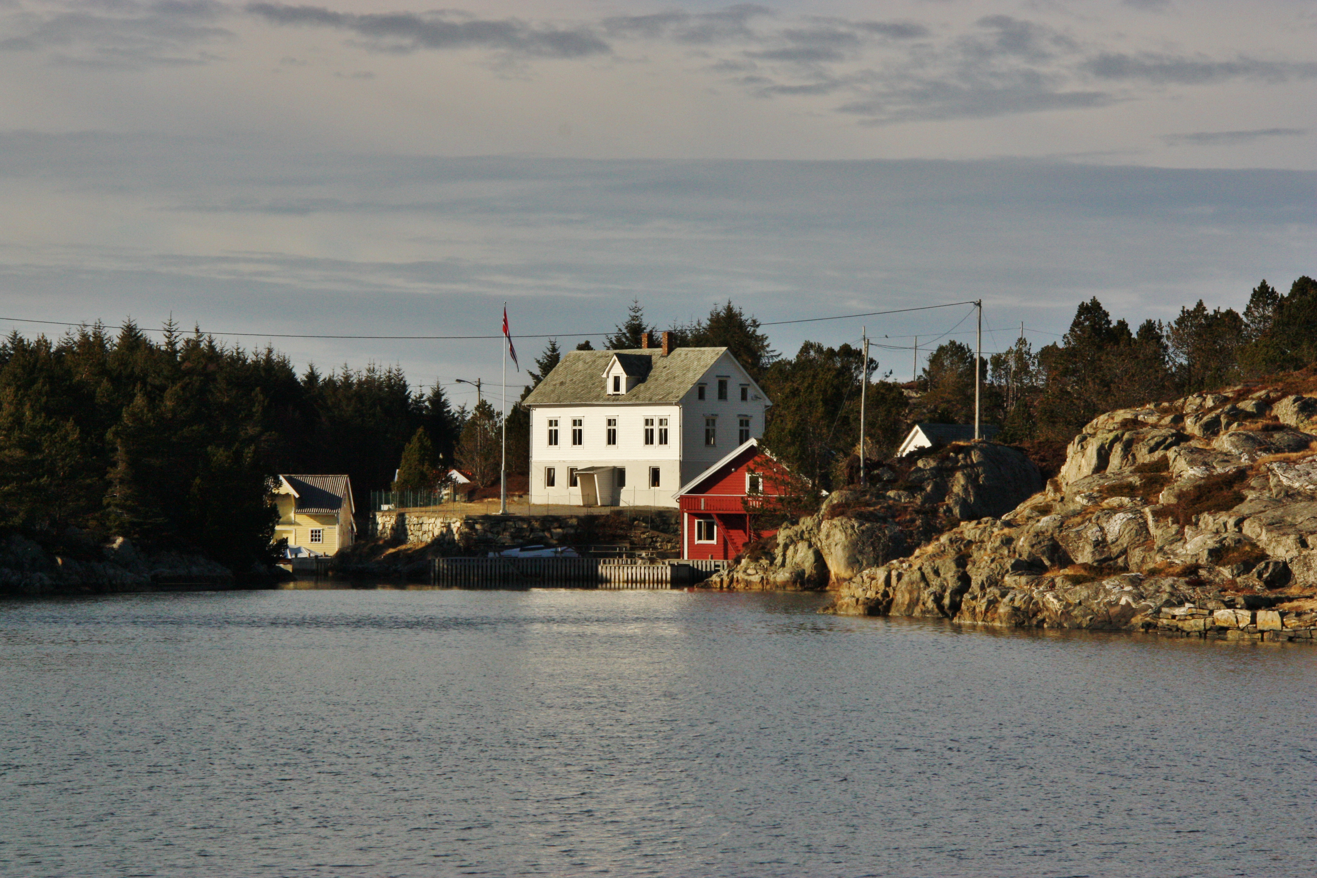 Rongevær in Austrheim